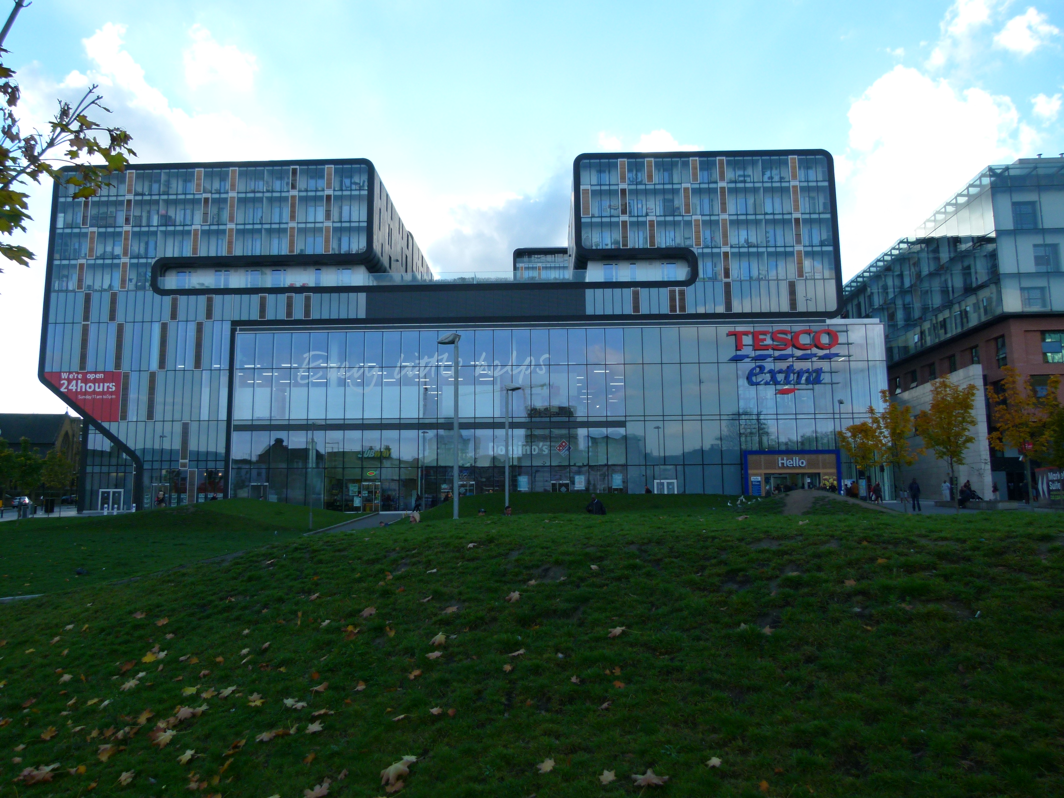 View from General Gordon Square of the Love Lane development in Woolwich, South East London. The main building is Woolwich Central with a Tesco hypermarket; to the right of Love Lane is The Woolwich Centre (public library and council offices).